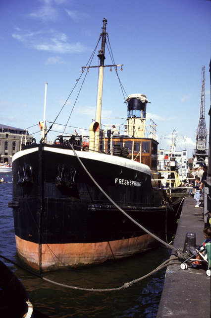 Steam Ship Freshspring, Prince's Wharf, Bristol Admiralty water tender built in Lytham St Anne's in 1947. Withdrawn from service 1979 and for a time on public display in Bristol. Latterly subect to a preservation attempt at Newnham on Severn but current status unknown.